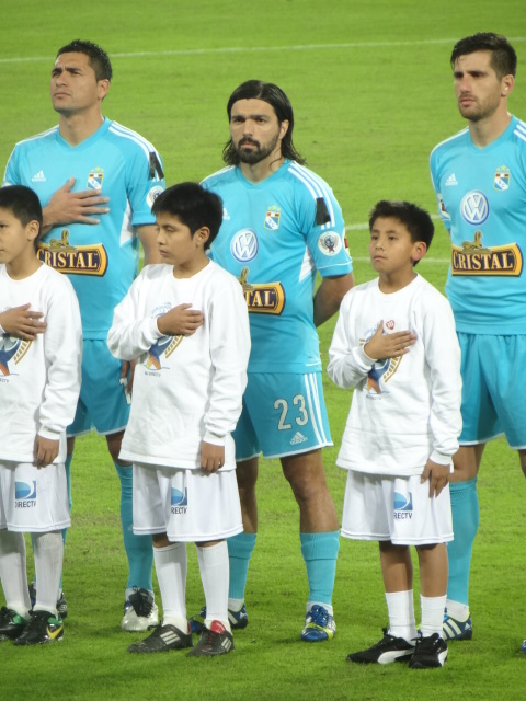 Jesús Álvarez, Jorge Cazulo and Nicolás Ayr during Euroamericana match